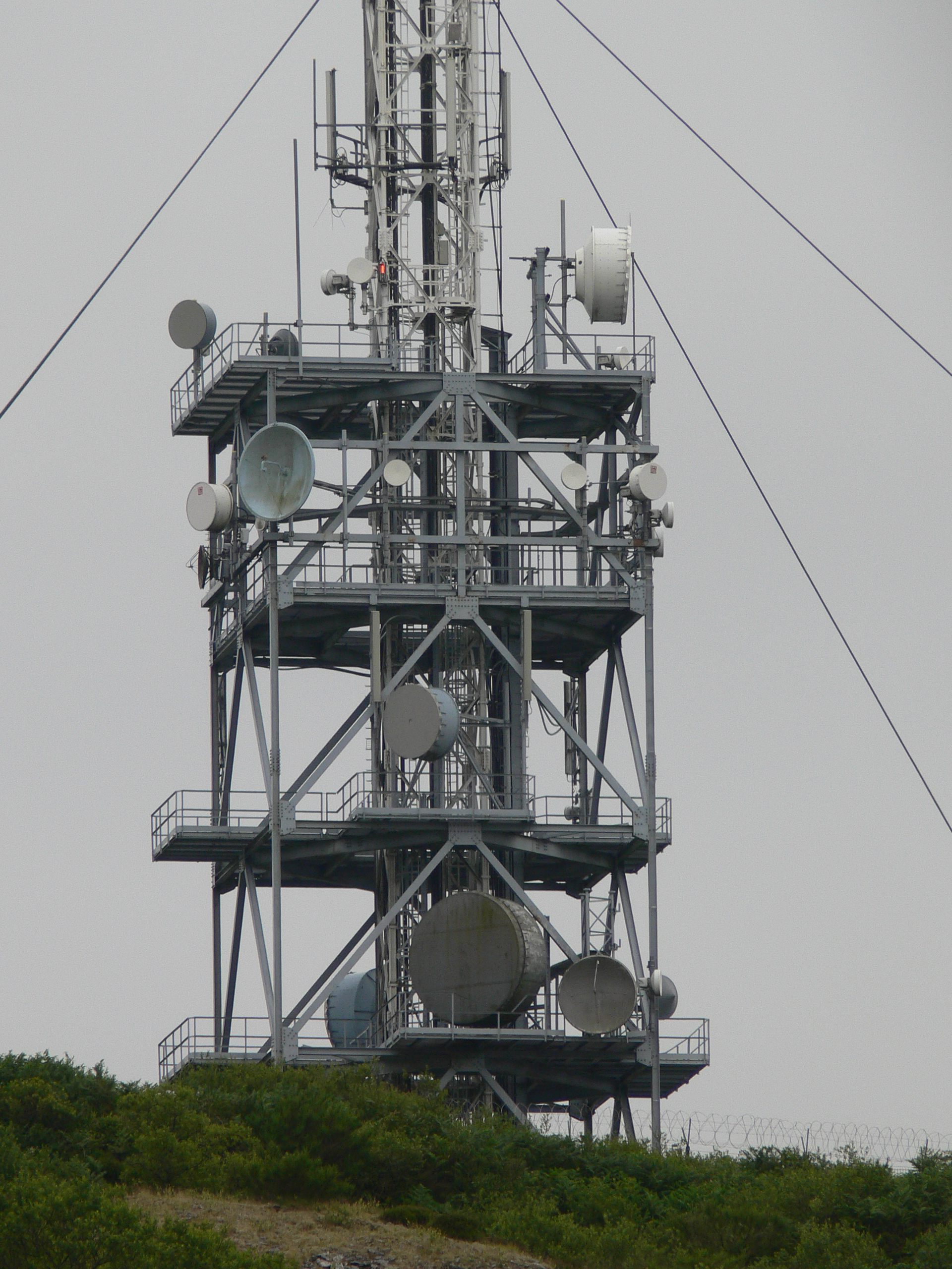 in the Panorama of Roc'h_Tredudon near "Roc Trévézel" (ou Roc'h Trevezel in Bretagne (Summer 2010), second upper point in Britany